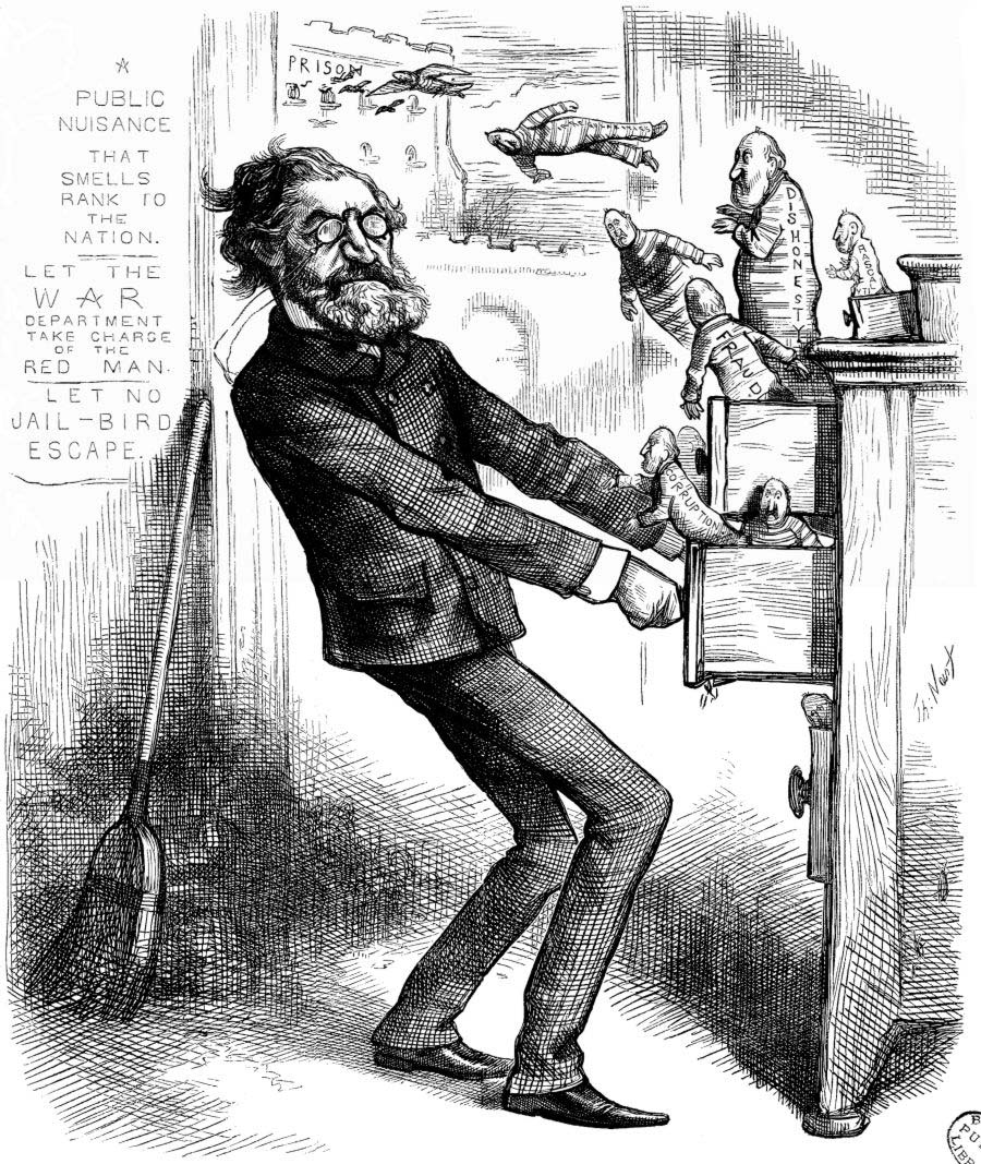 Secretary of the Interior Carl Schurz cleans out the Indian Bureau at the Department of the Interior.